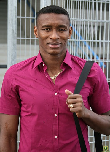 Colombian football player Manuel Arboleda